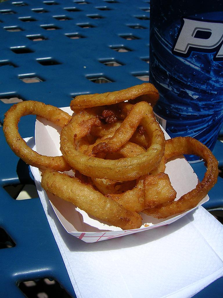 Taken from , a collection of public domain images